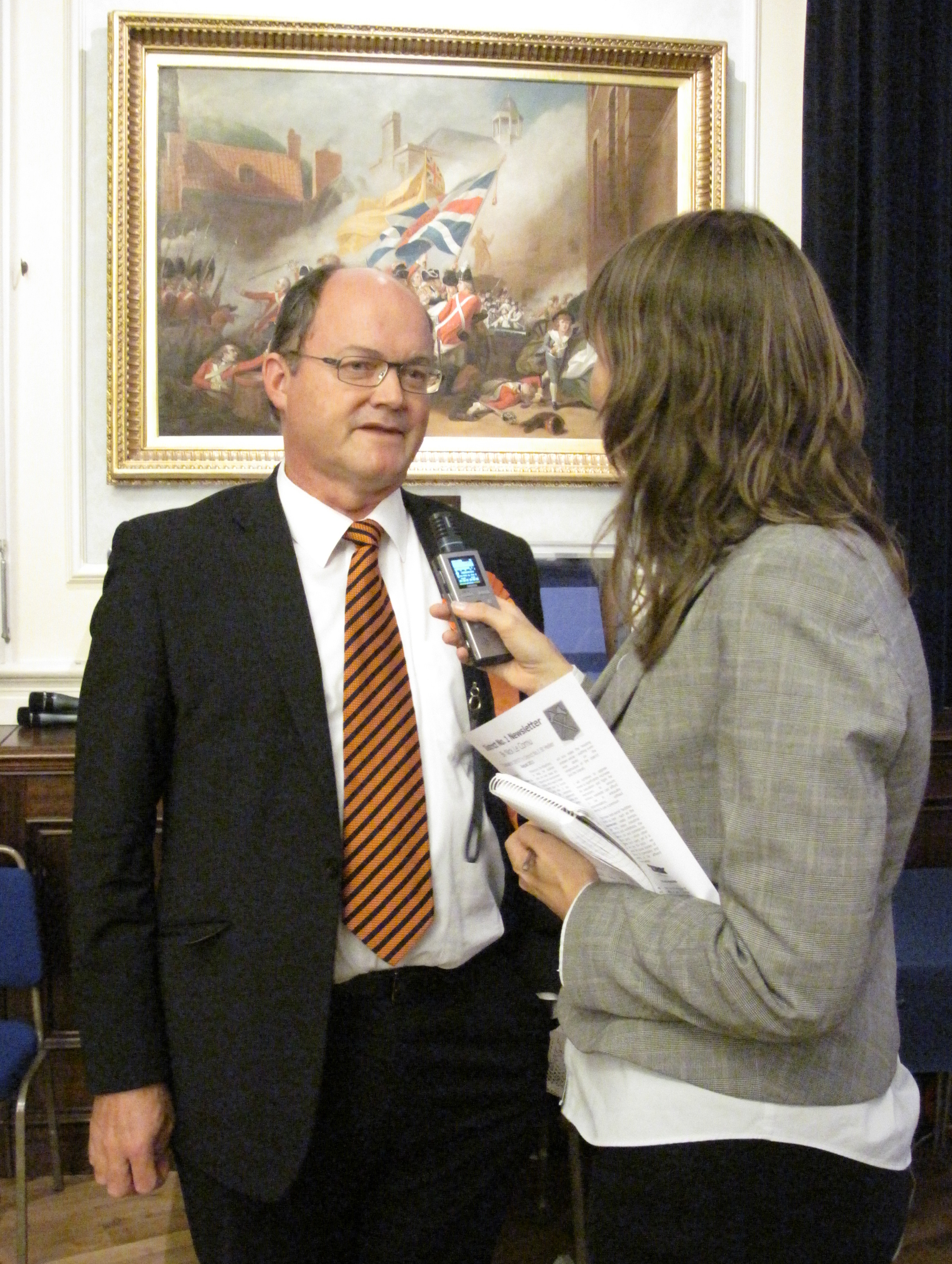 Re-election of Simon Crowcroft as Connétable of Saint Helier